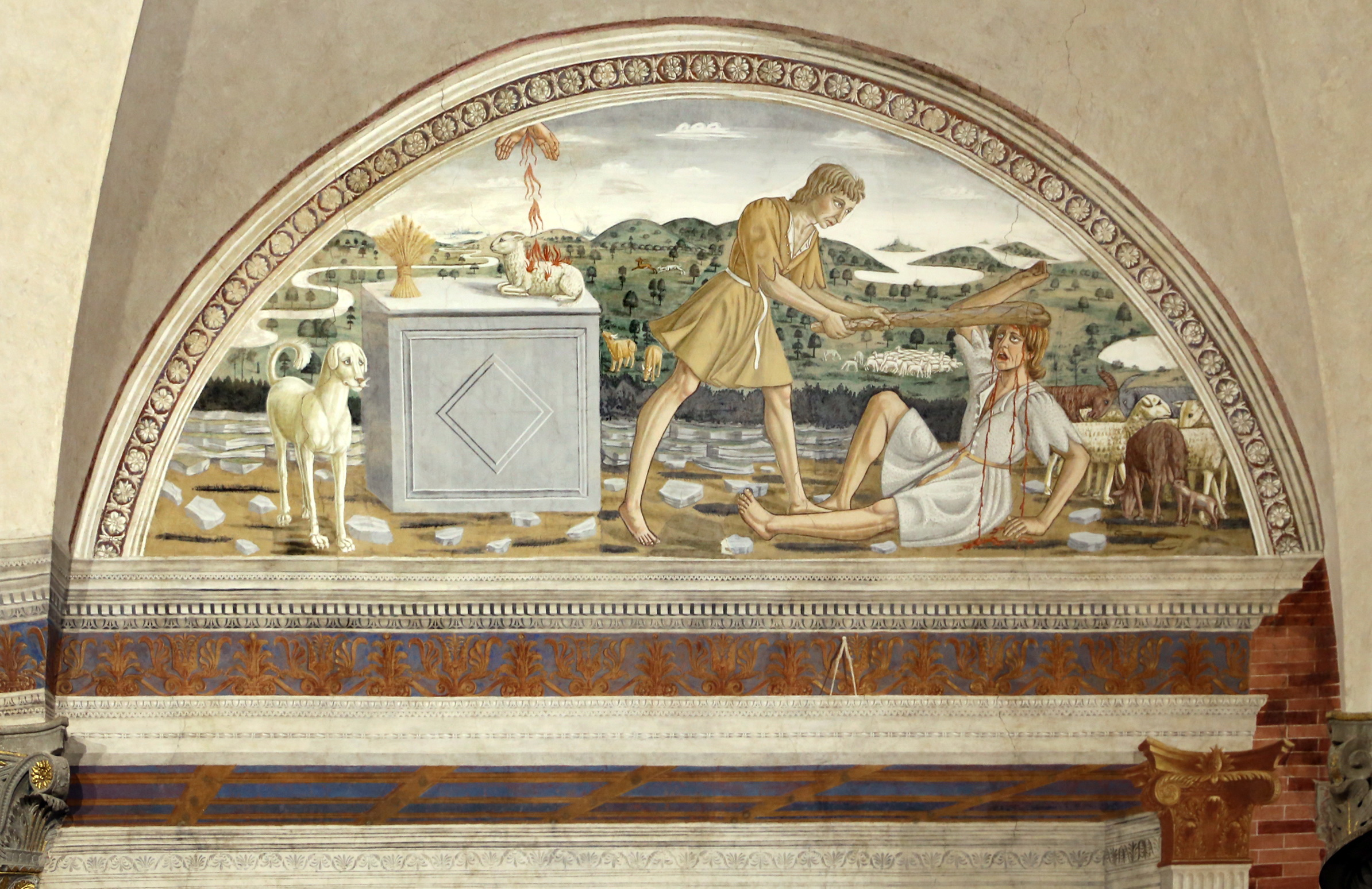 Abbazia di San Michele Arcangelo a Passignano - Refectory